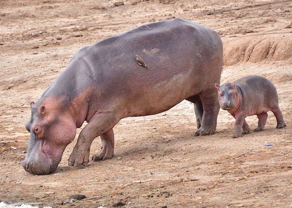 Mother and Young Hippo, Uganda